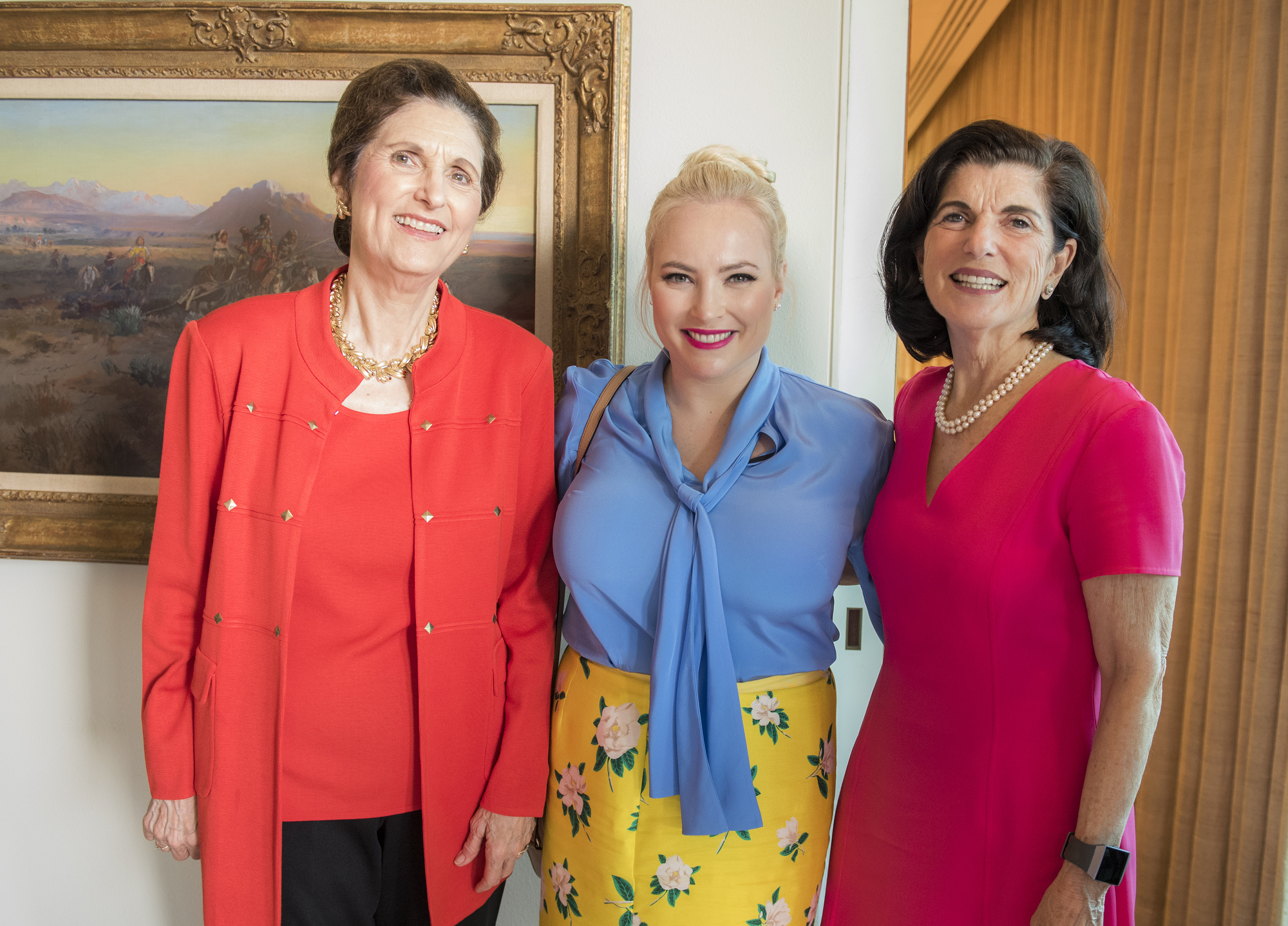 (L-R) Lynda Johnson Robb, Meghan McCain, and Luci Baines Johnson. On Friday, June 29, 2018, the LBJ Foundation honored U.S. Sen. John McCain, R-AZ, with its most prestigious recognition, the LBJ Liberty&Justice For All Award. Sen. McCain's daughter, Meghan McCain, accepted the award on his behalf.